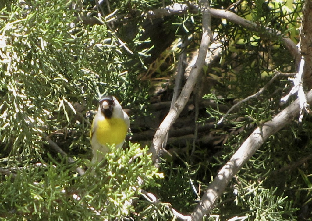 Lawrence's Goldfinch Spinus lawrencei, male. Carrizo Plain, San Luis Obispo, California.